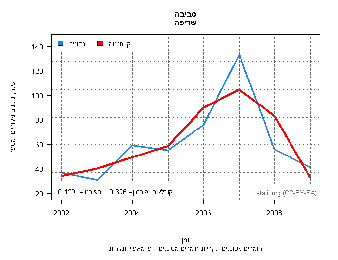 Fires of dengoures materials from the years 2002 to 2009